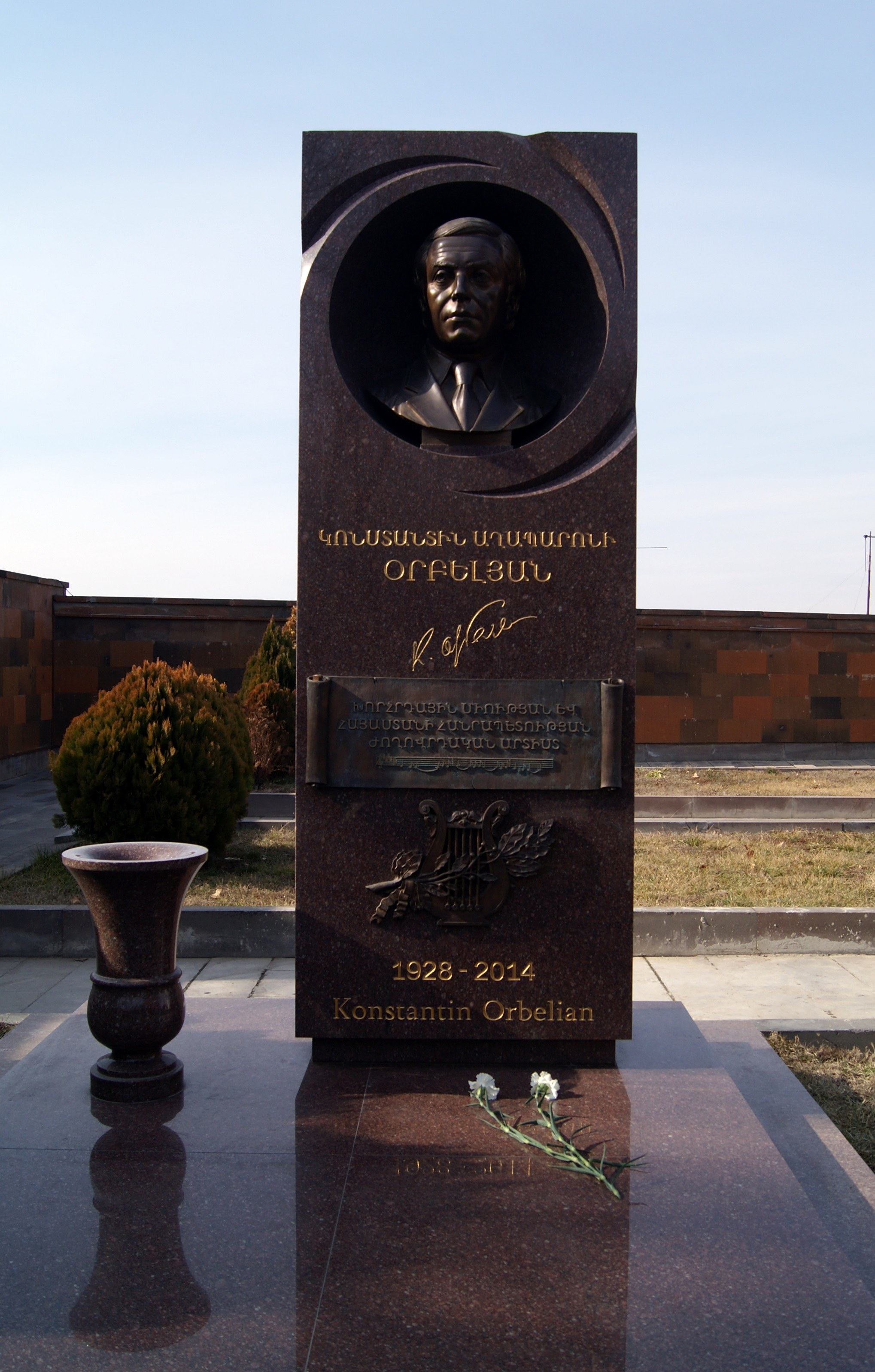 Konstantín Orbelián's Monument in Pantheon, Yerevan